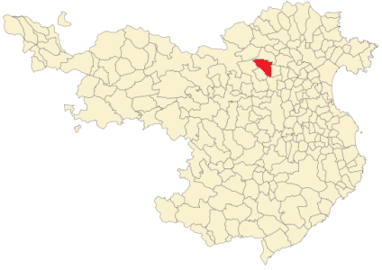 Cistella